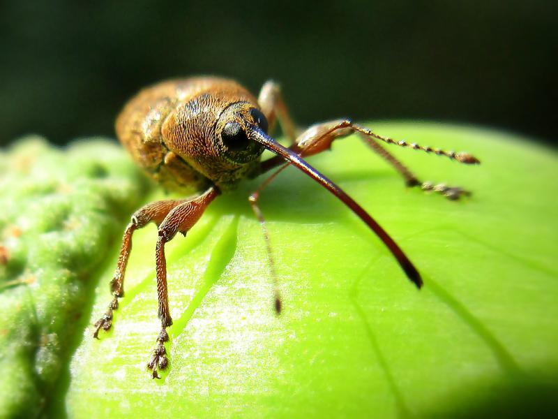 Curculio glandium (Curculionidae sp.), Doorwerth, the Netherlands